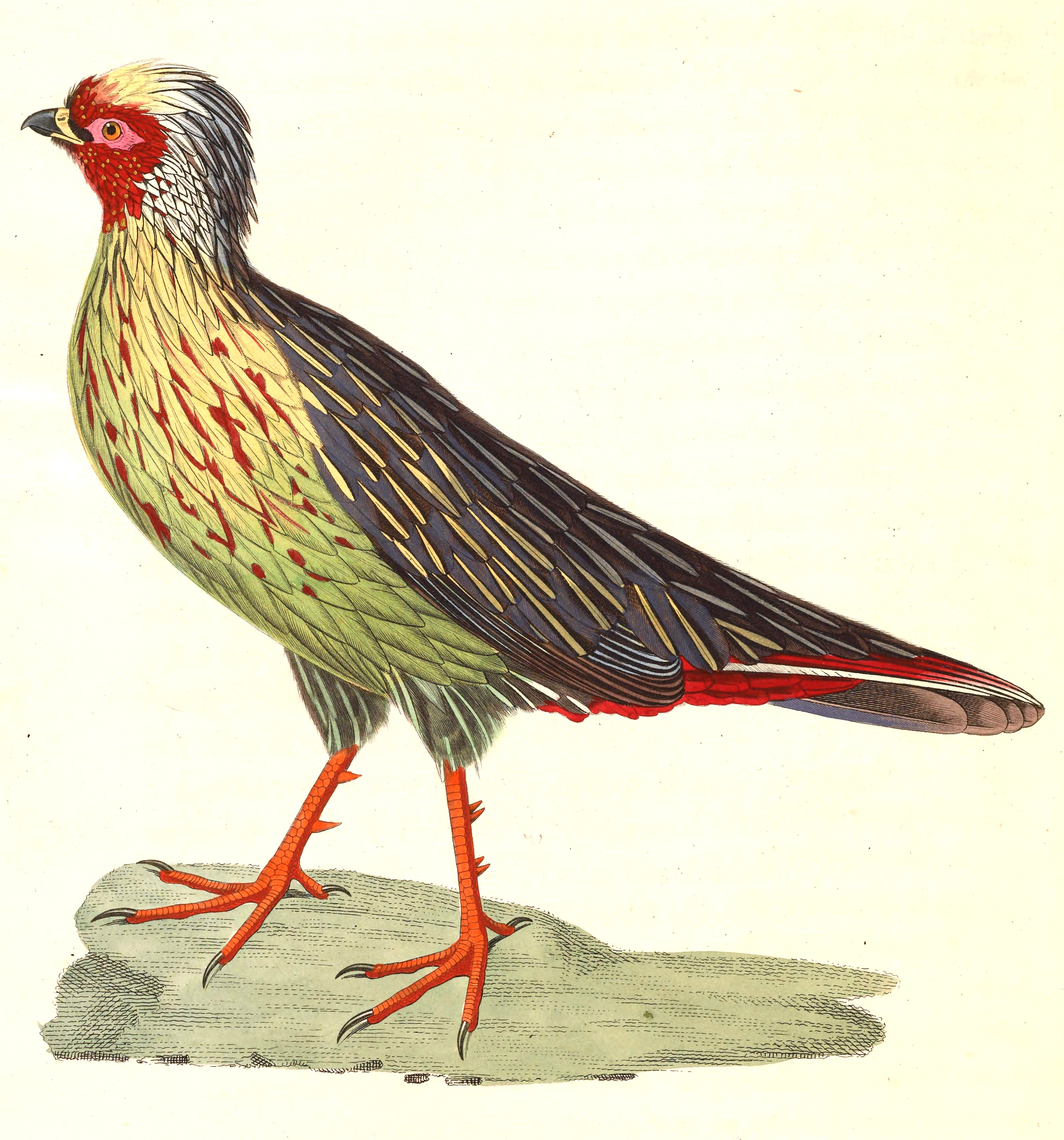 « Perdix cruenta » = Ithaginis cruentus (Blood Pheasant) - male